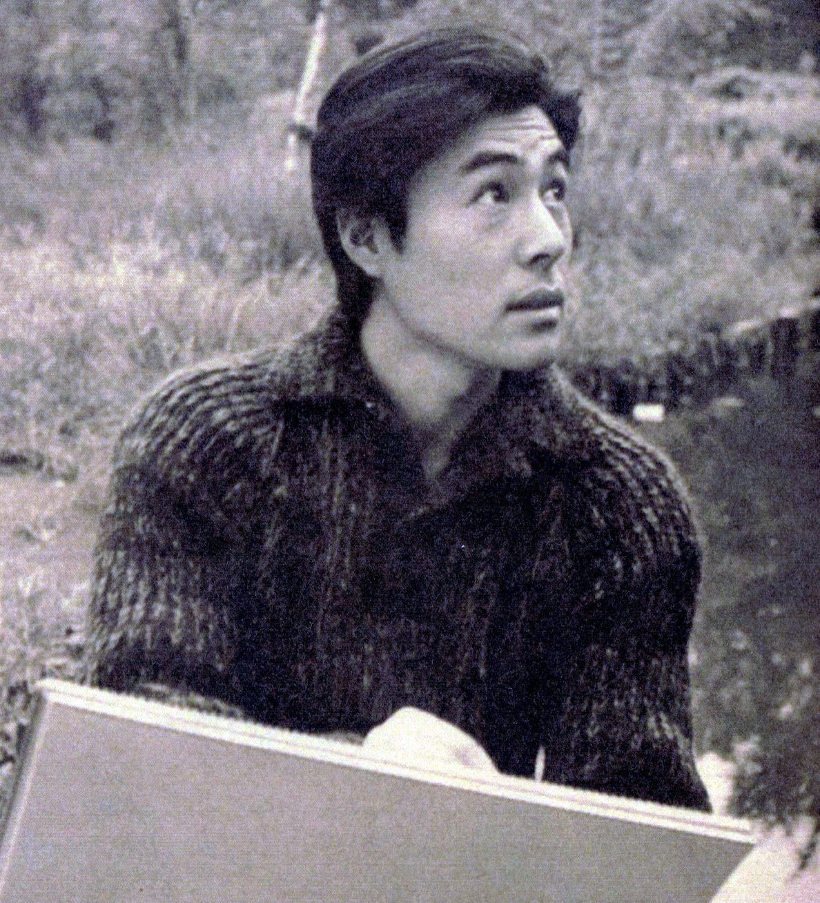 Go Kato